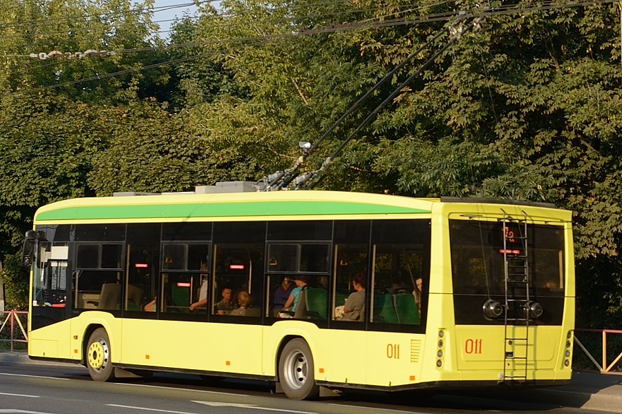 Electron T19 011 in Khmelnytskyi